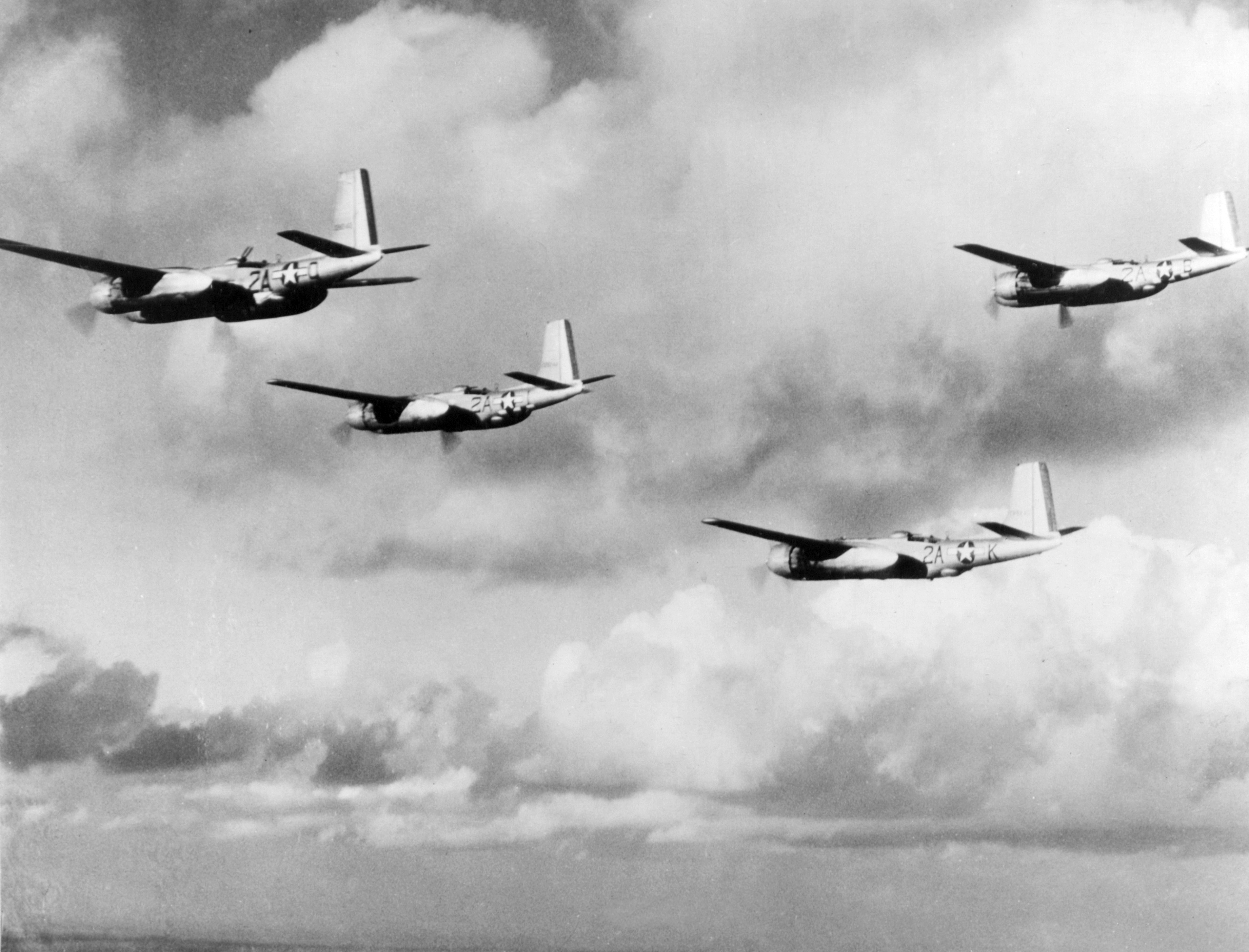 669th Bomb Squadron, 416th Bomb Group, 9th Air Force